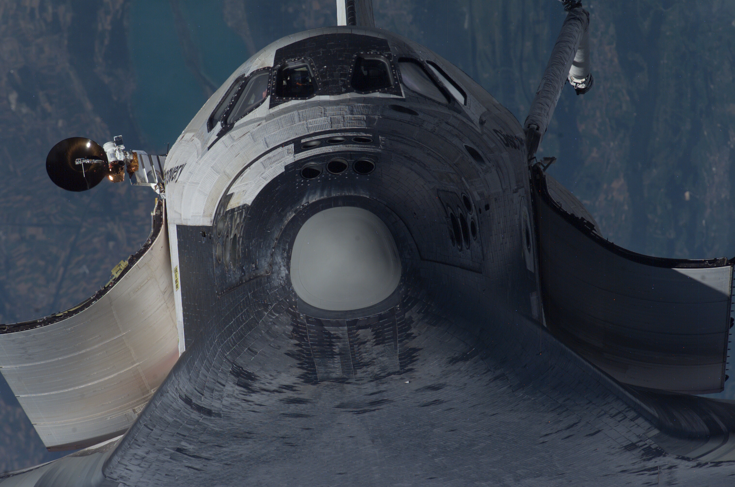 Discovery begins the nine-minute Rendezvous Pitch Maneuver, or 'backflip,' on its last visit to the International Space Station. This view of the nose, crew cabin and forward payload bay of the space shuttle Discovery was provided by an Expedition 27 crew member during a survey of the approaching STS-134 vehicle prior to docking with the International Space Station. As part of the survey and part of every mission's activities, Endeavour performed a back-flip for the rendezvous pitch maneuver (RPM). The image was photographed with a digital still camera, using a 400mm lens at a distance of about 600 feet (180 meters).